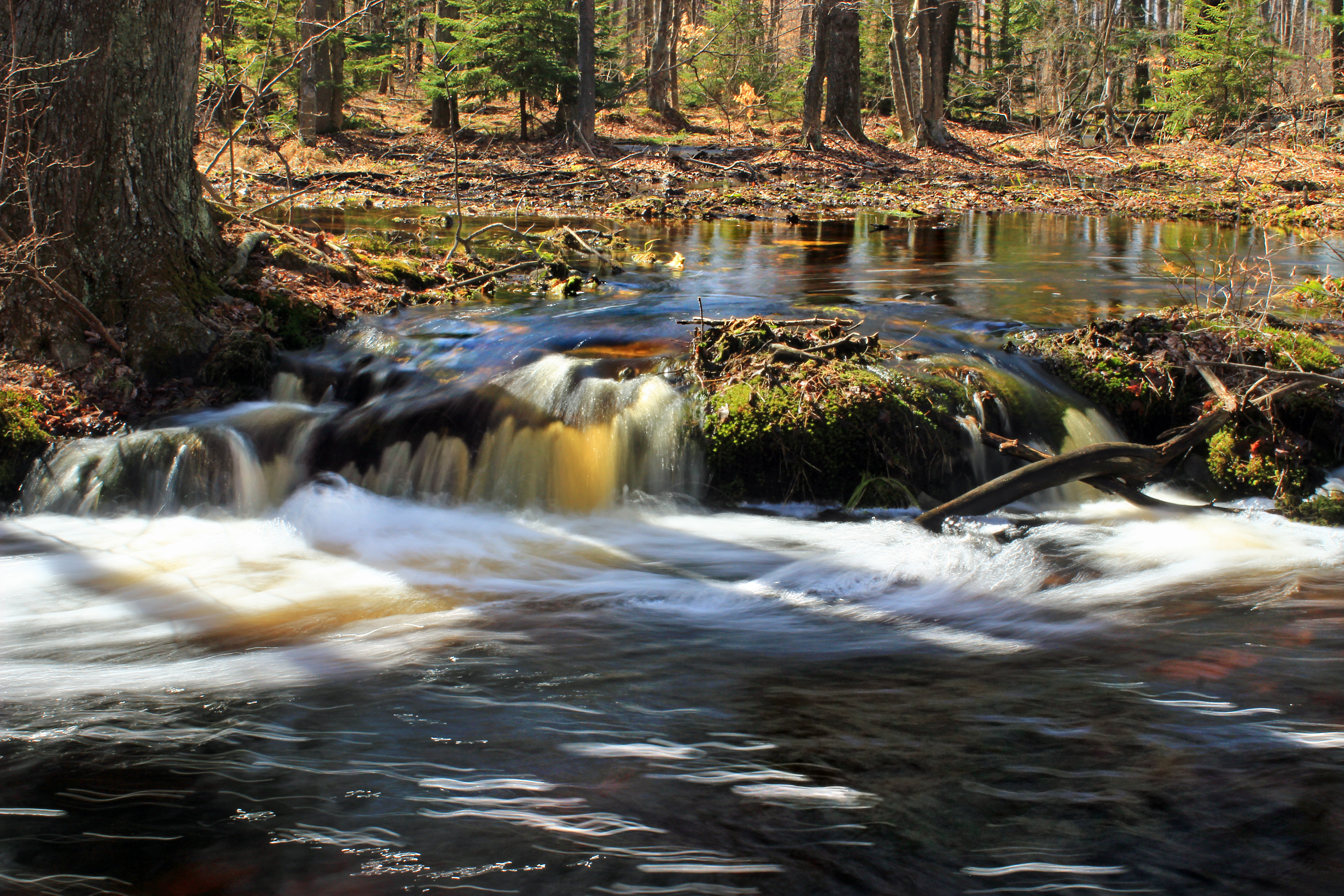 Tobyhanna Creek, Monroe County, within the Bender Swamp Natural Area of Tobyhanna State Park. The wide, tannin-rich stream forms cascades and small waterfalls interspersed with deep pools. Numerous springs and tributary streams help ensure a substantial flow of water.